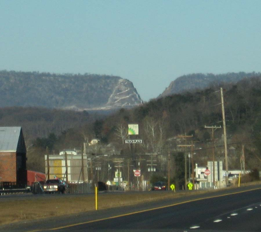 Sidling Hill photographed from Interstate 70.